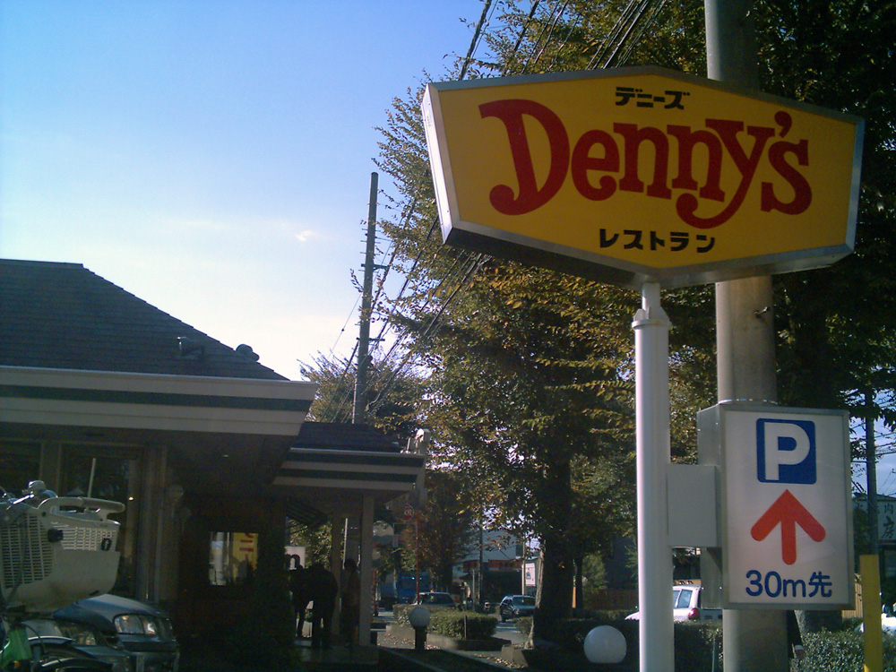 Dennys-Restaurant_in Japan photography day, 2006/11/21 photography person kici デニーズ